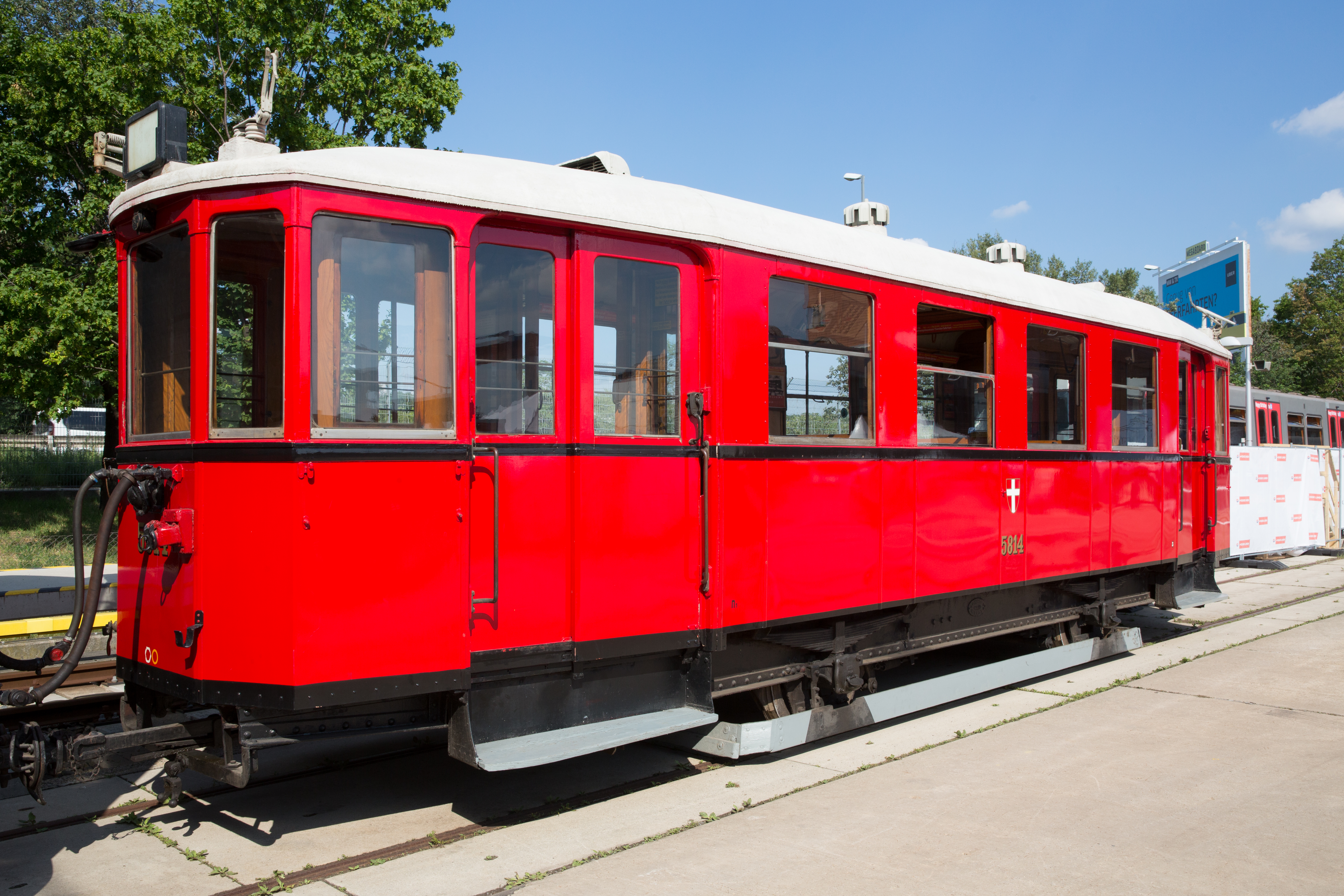 Trailer car n1 5814 of the Wiener Stadtbahn.